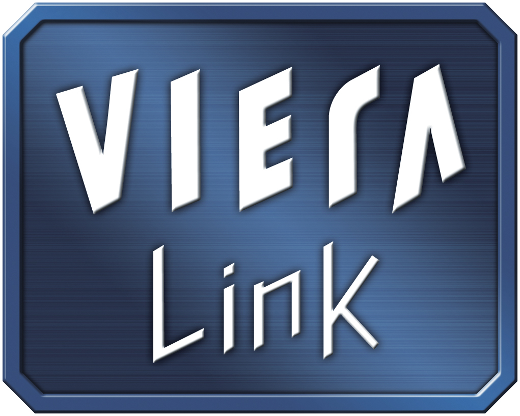 Panasonic VIERA Link logo